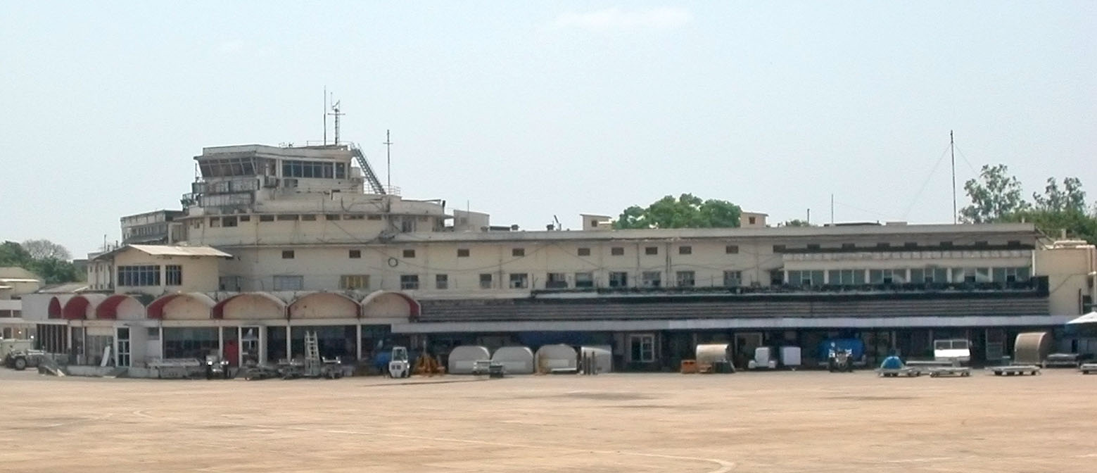 The old terminal at Meenambakkam, Chennai Airport. The terminal and apron is currently used for freight operations.